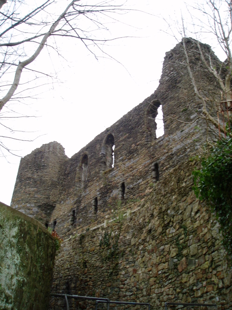 Haverfordwest Castle Taken by mediocre fluff